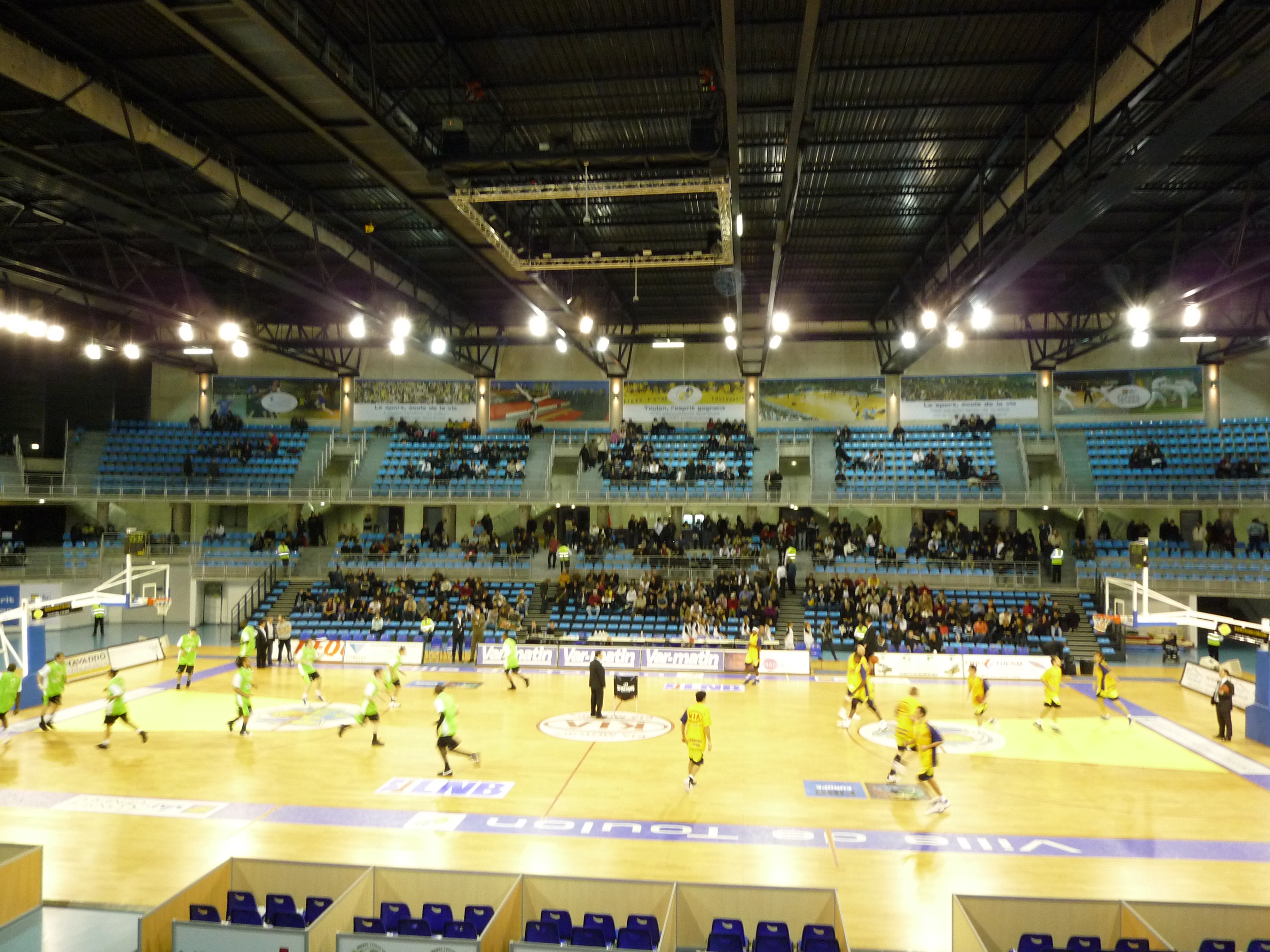 Match de Pro A du Hyères Toulon Var Basket